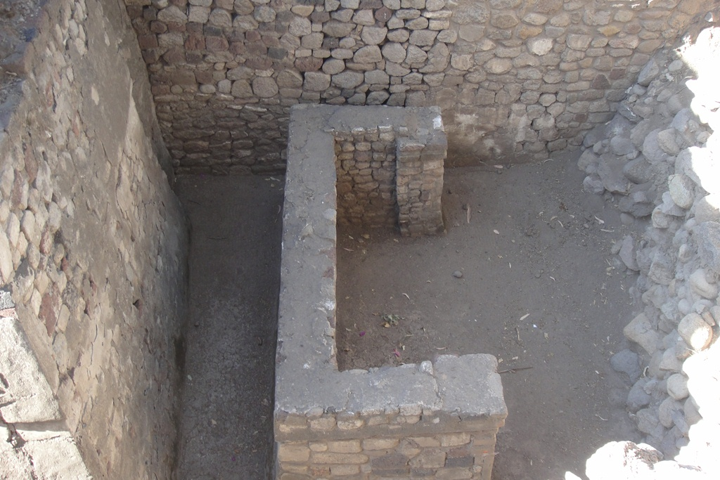 Template:Huexotla, Structure 1, lower structure